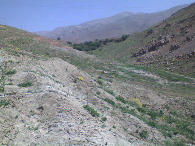 maryak village